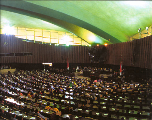 Session of the Indonesian People's Representative Council (DPR)